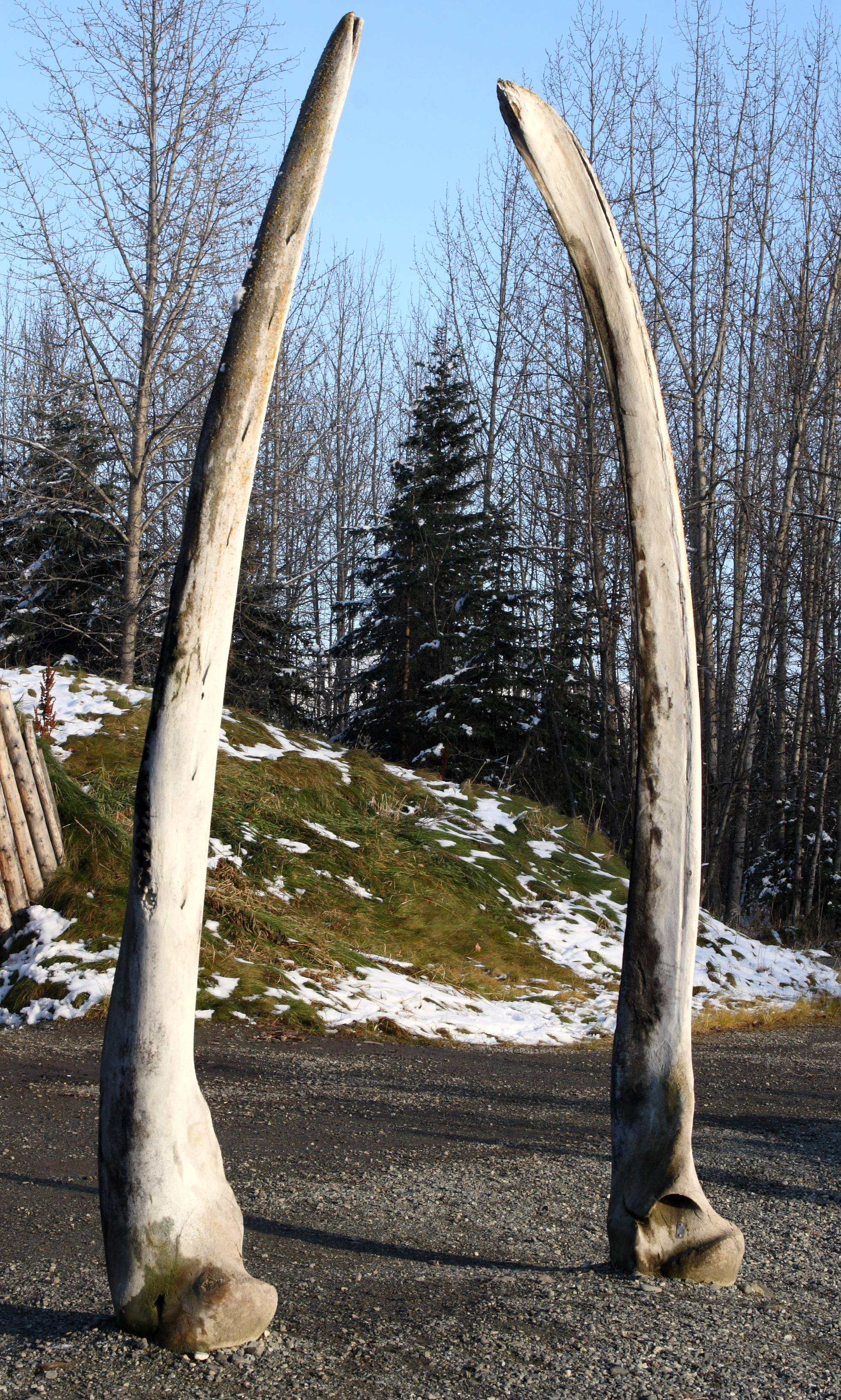 I took this photo on the grounds of the Alaska Native Heritage Center in Anchorage, Alaska in October, 2008.